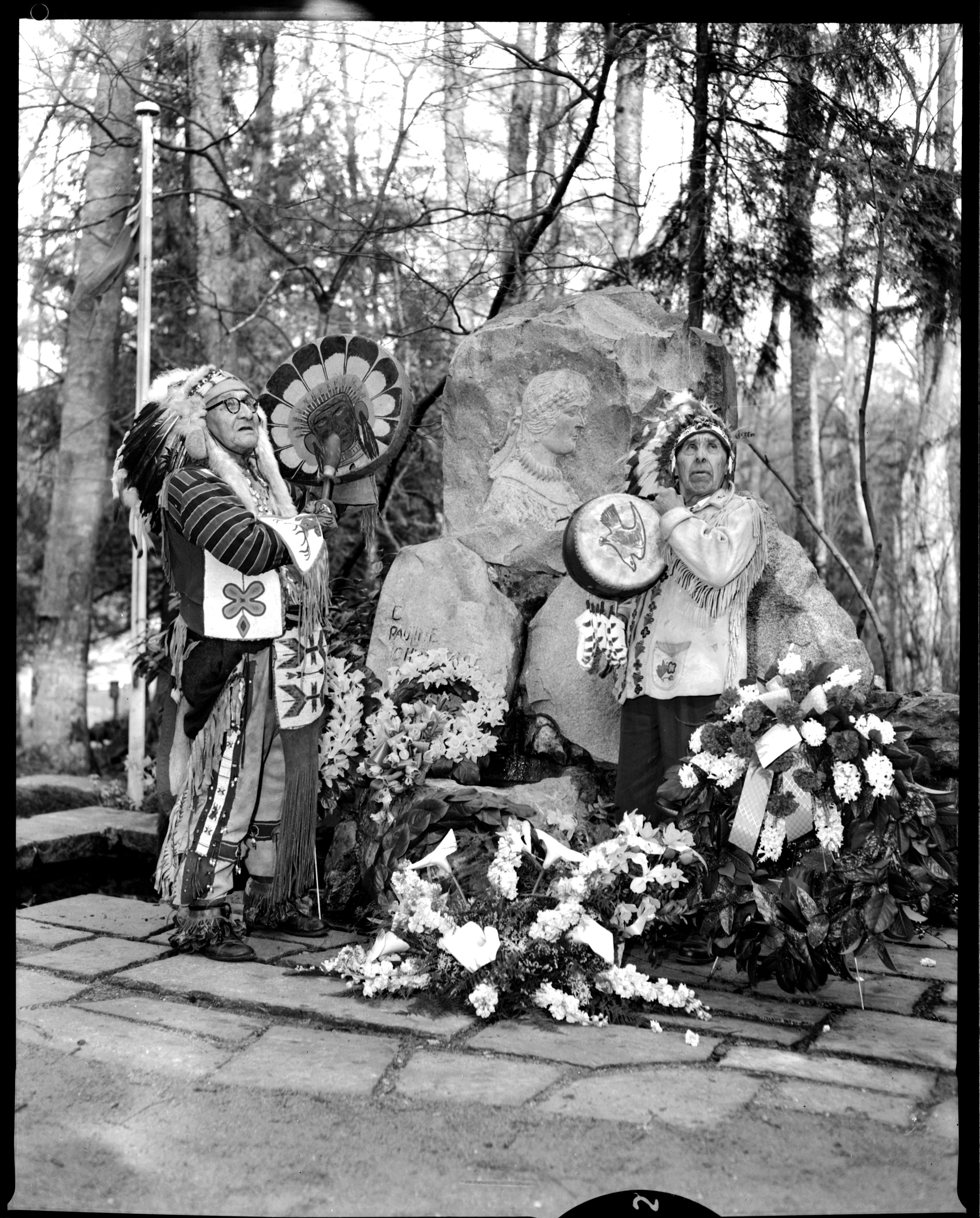 Pauline Johnson Memorial in Stanley Park VPL Accession Number: 13271 Date: March 1961 Photographer/Studio: Sedawie, Gordon F. Content: At the E. Pauline Johnson Memorial. Mathias Joe - B. drum (left). Dominic Charlie - S. drum (right). Part of a series 13271A-B. Topic: Memorials Indians of North America - Clothing Drummers (Musicians) Person: Mathias, Joseph (Joe) William, 1944?-2000 Charlie, Dominic, d. 1972 Johnson, E. Pauline, 1861-1913 Location: British Columbia - Vancouver - Stanley Park More information on our historical photograph collection